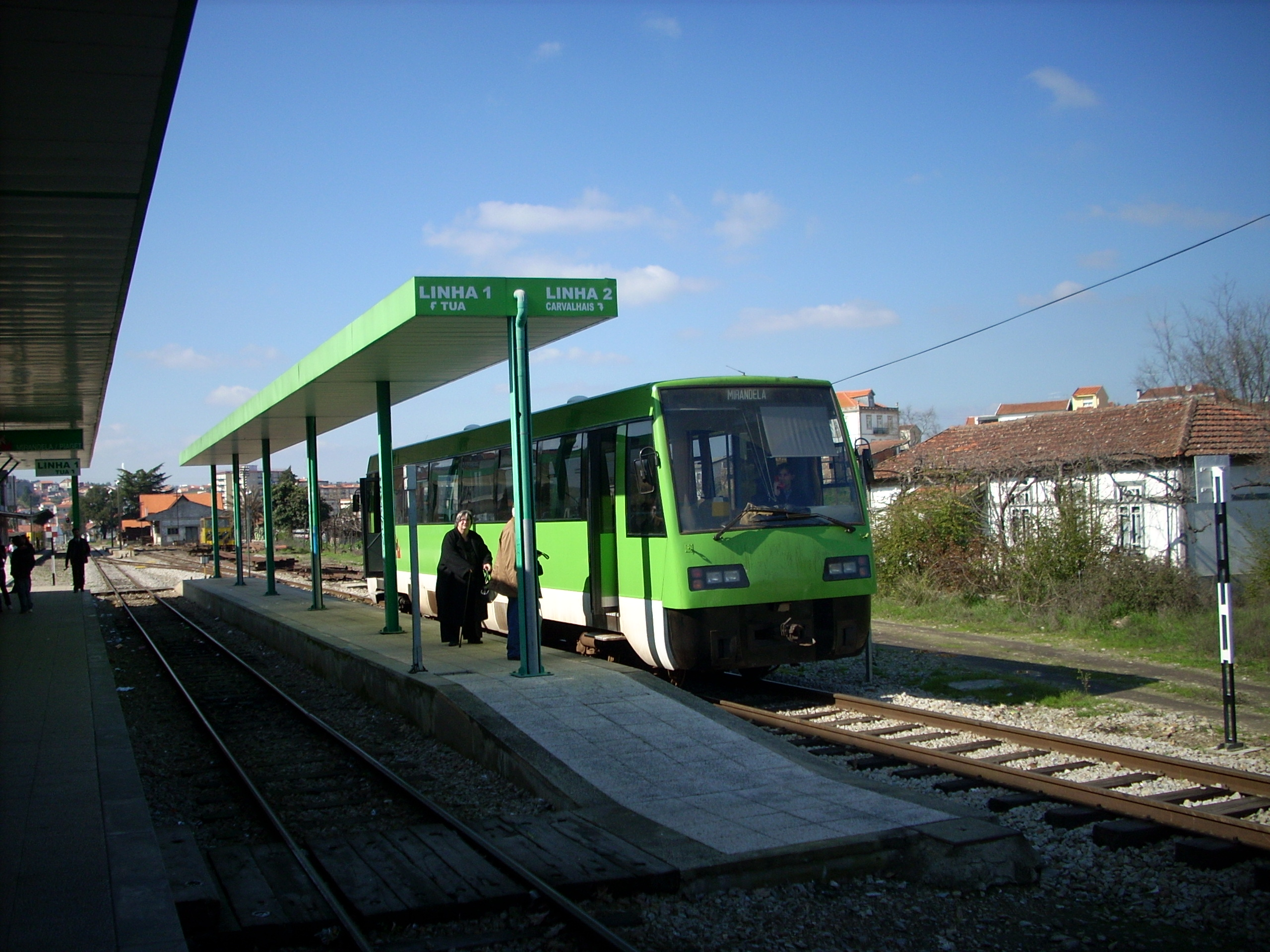 A train at Mirandela train station, Linha do Tua railway, Portugal